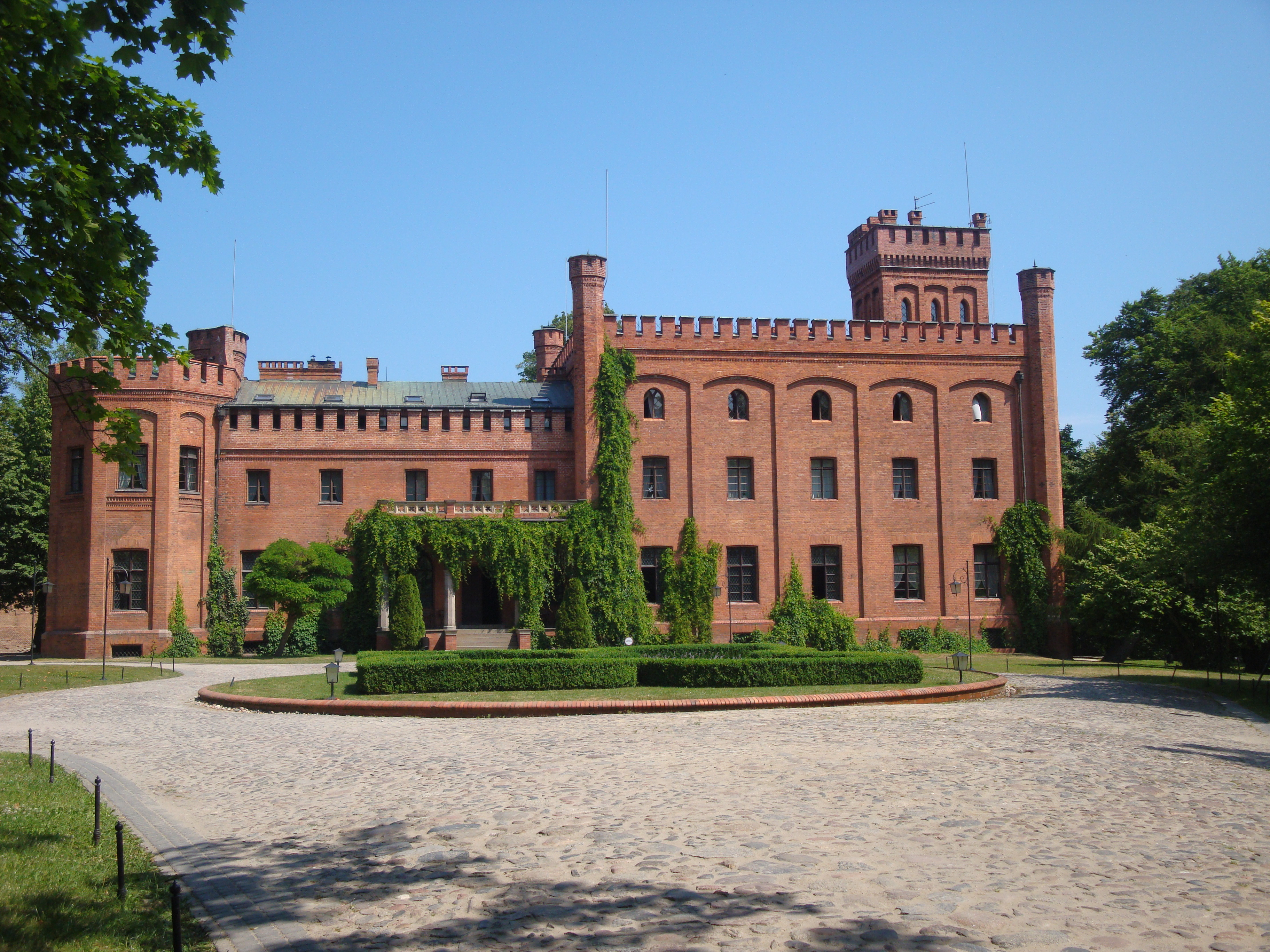 Rzucewo, village in Gmina Puck, Poland.Former palace von Below, presently hotel